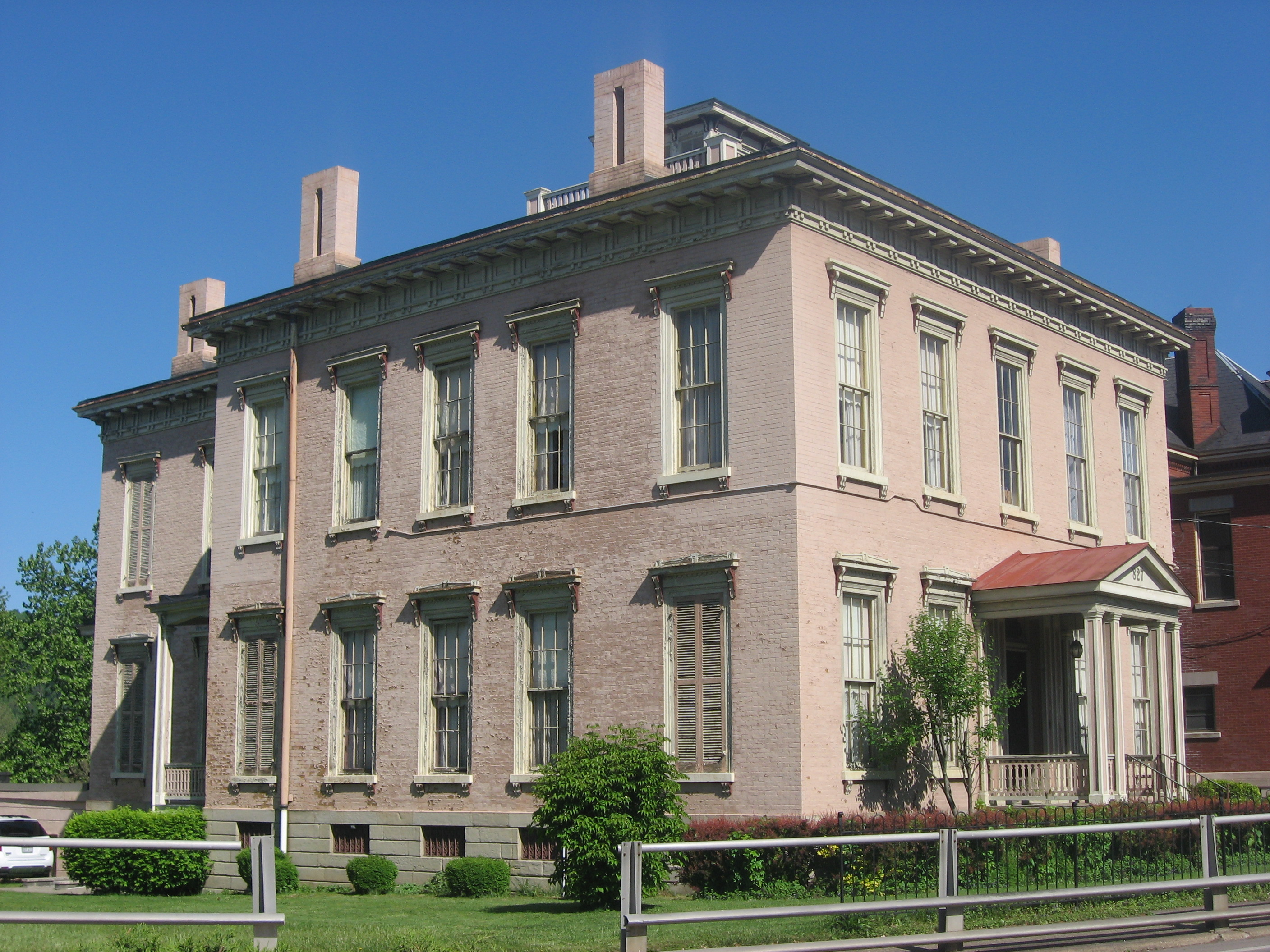 Front and southern side of the Henry K. List House, located at 827 Main Street (WV 2) in Wheeling, West Virginia, United States. Built in 1858, it is listed on the National Register of Historic Places.